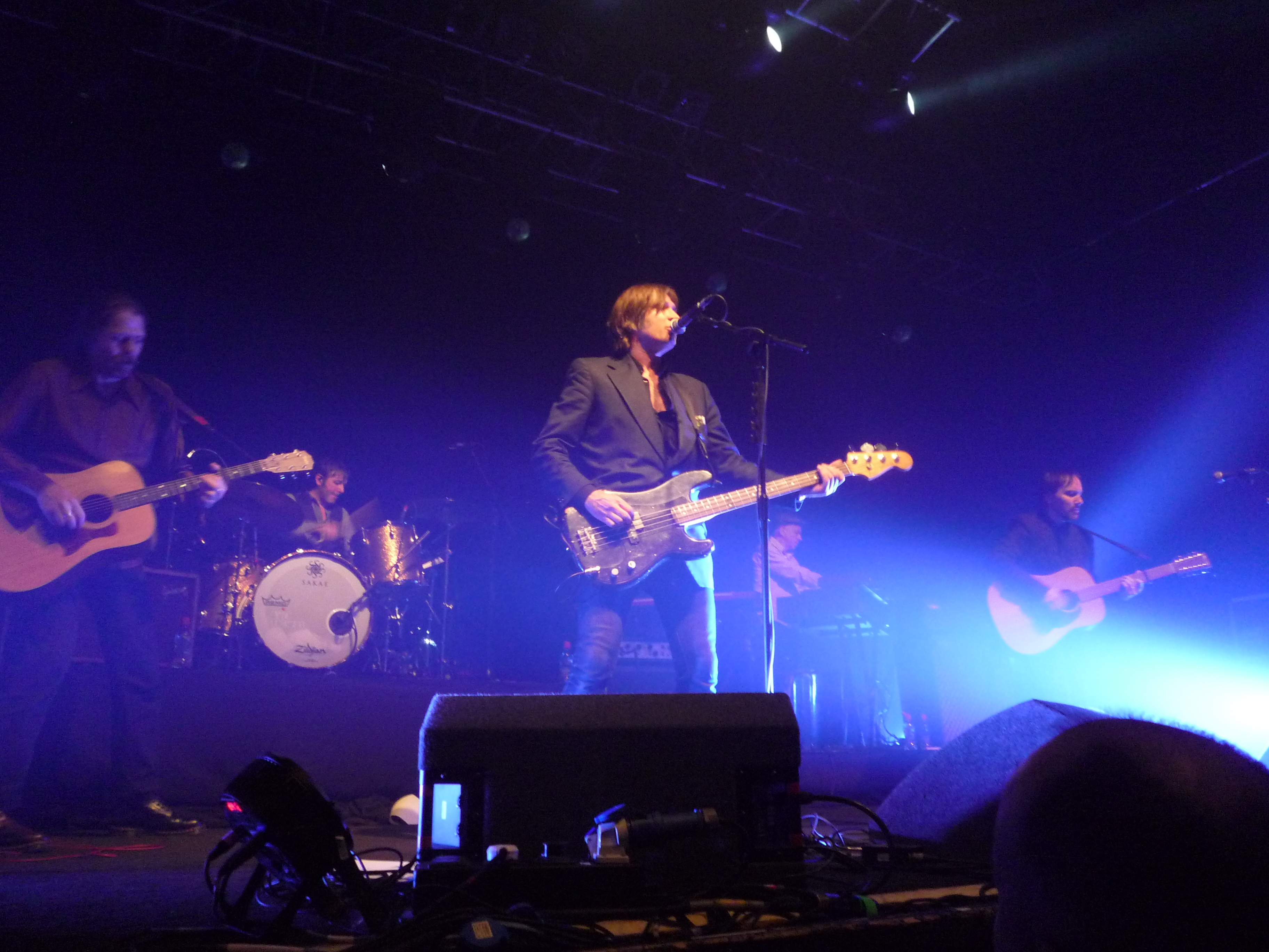 Del Amitri playing at Vicar Street in Dublin, on Wednesday 22nd January 2014. Left to right: Iain Harvie (lead guitar), Ashley Soan (drums), Justin Currie (lead vocals and bass), Andy Alston (keyboards) and Kris Dollimore (guitar).